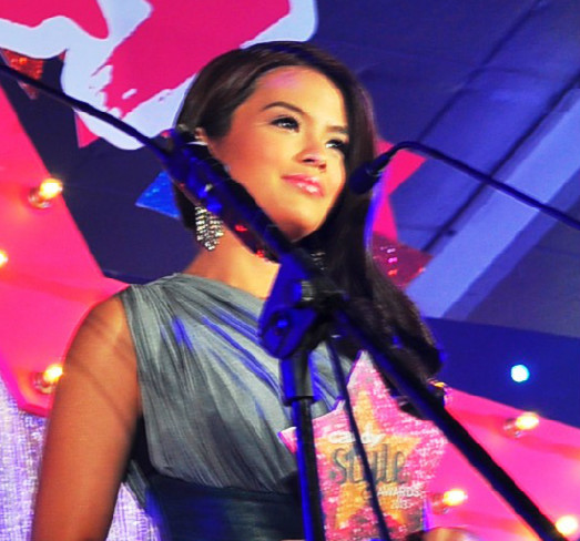 Philippine actress Bea Binene receiving award at the 2013 Candy Style Awards